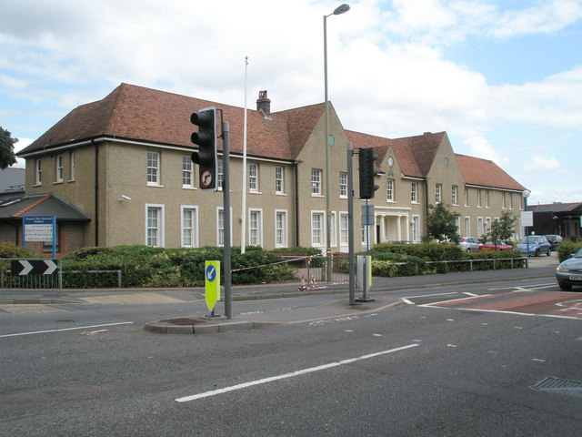 Gosport War Memorial Hospital as seen from the top of The Avenue